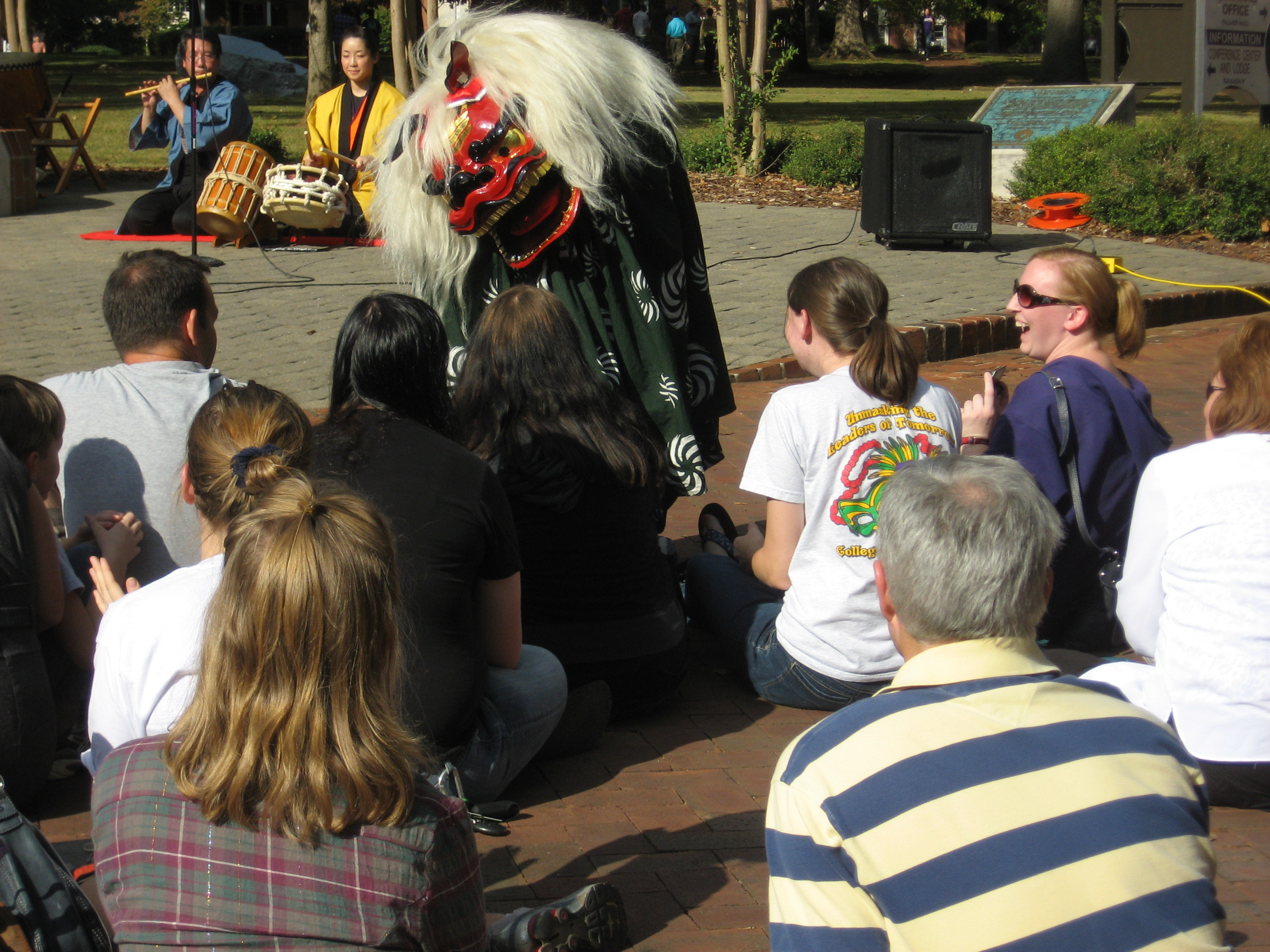 Lion Dance Performance By The Echizen Lion Dancers at Main Quad University of Montevallo 10-13-10 Invitation-On behalf of the Montevallo Sister City Commission Photo by: Rosemary Arneson